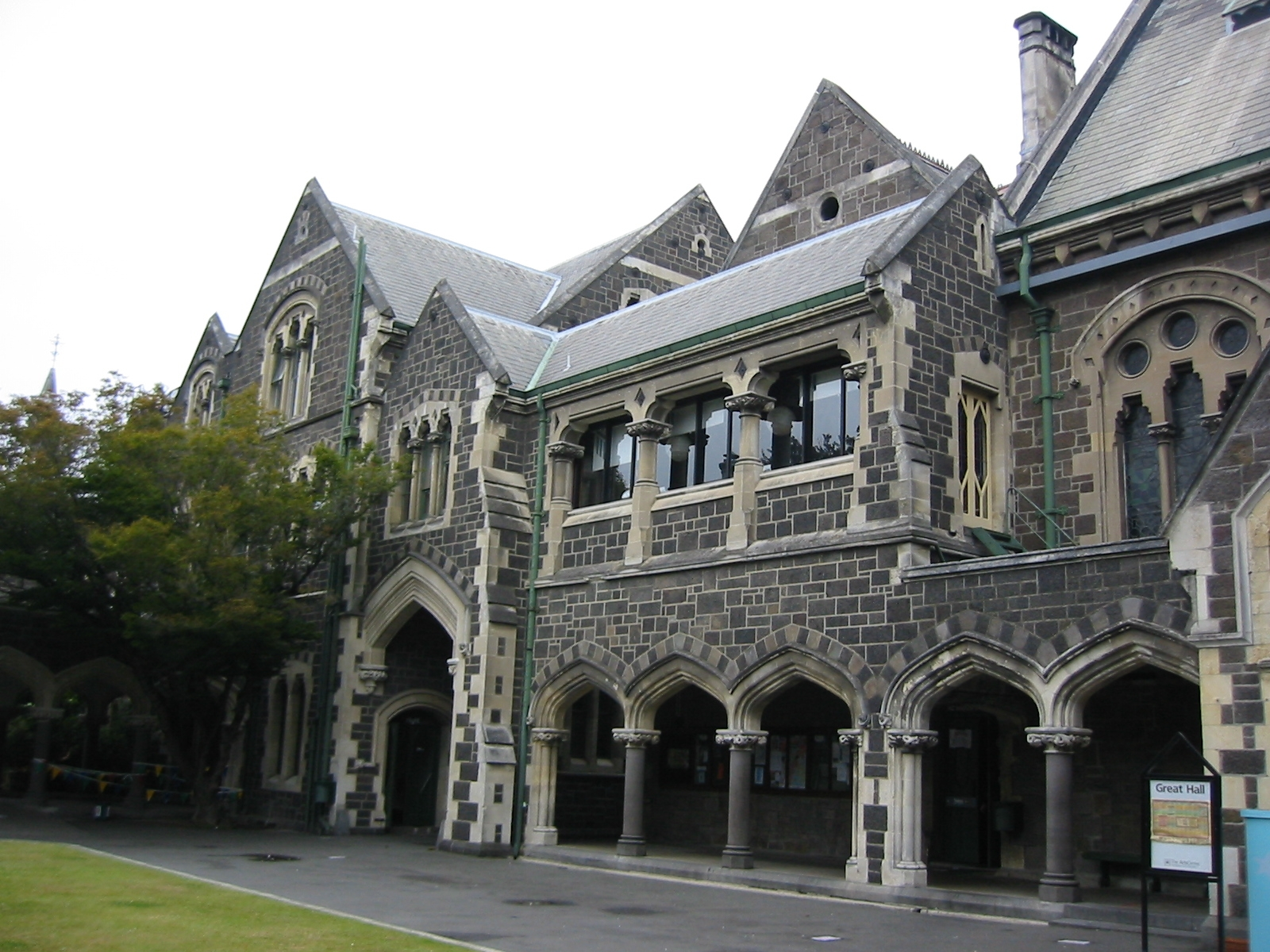 Main Hall of the Arts Centre (former University) in Christchurch, New Zealand. New Zealand Historic Places Trust Register number: 7301.